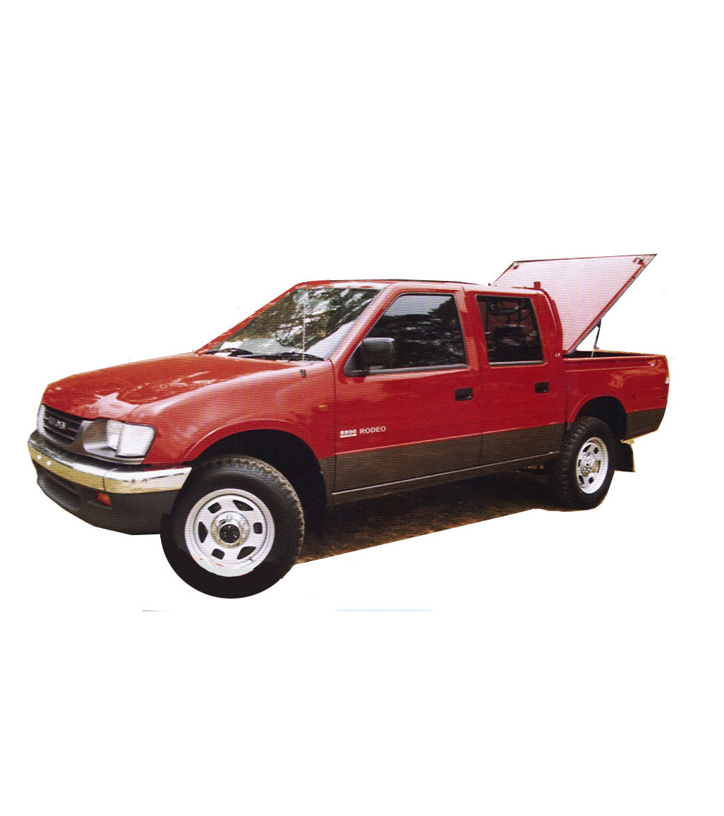 1997 Holden Rodeo (TF) LT Crew Cab 4-door utility, photographed in Australia.